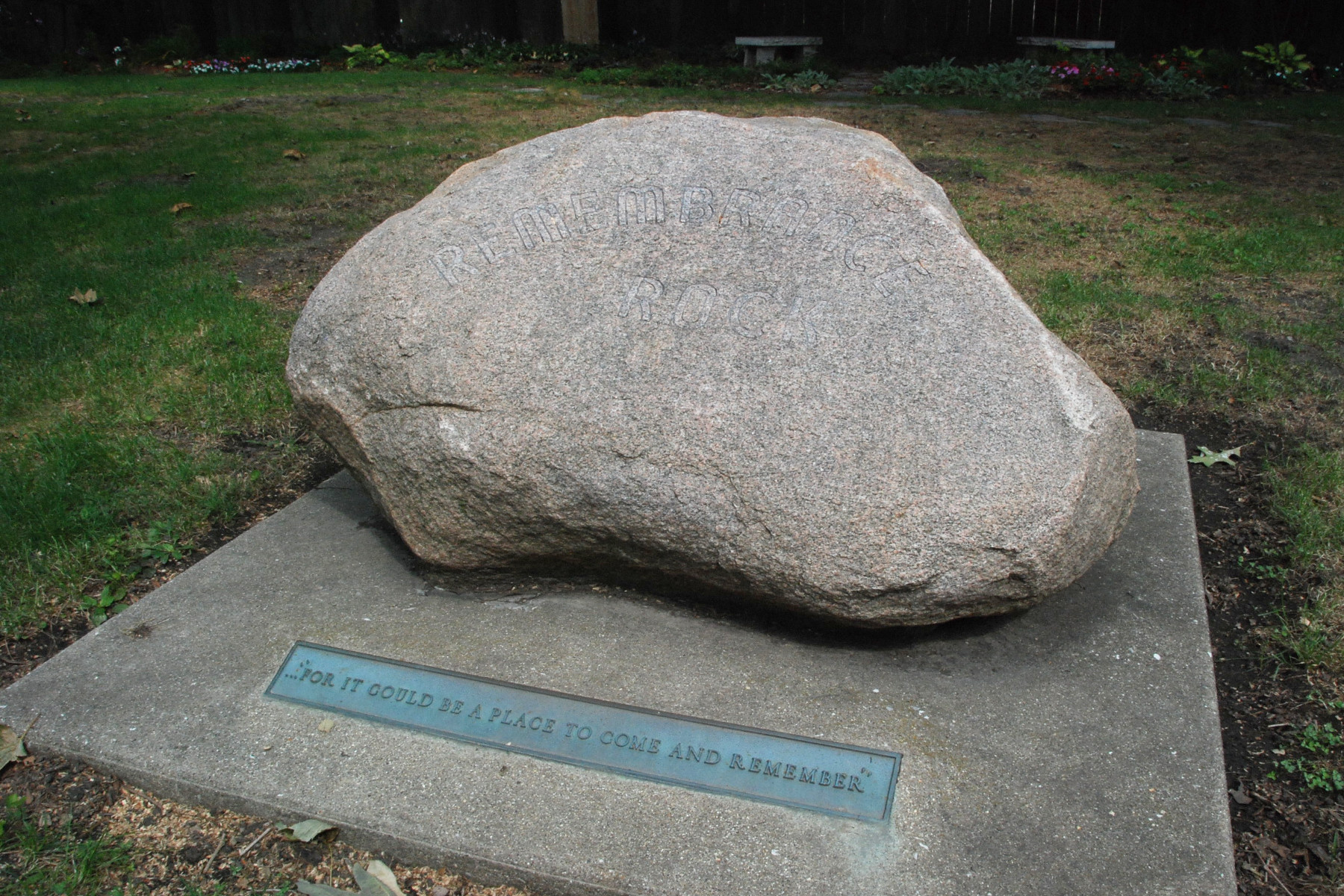 Grave of Carl Sandburg, Galesburg IL